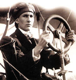 Aviation pioneer John A.D. McCurdy at the controls of the AEA Silver Dart, c. July-Aug 1911